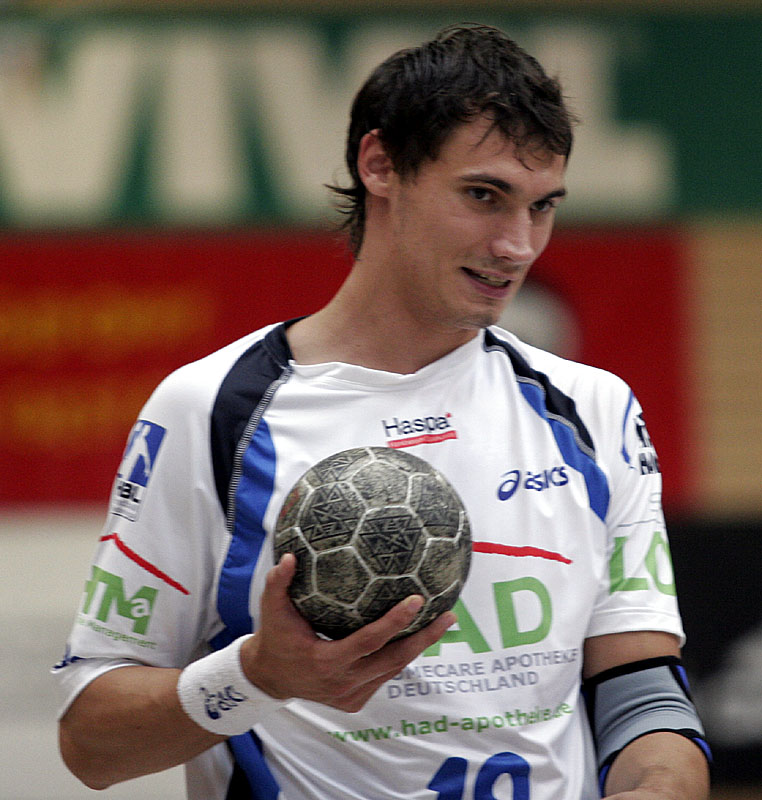 Krzysztof Lijewski, Polish handball player from HSV Hamburg, during the Schlecker Cup 2007 in Ehingen (Germany)